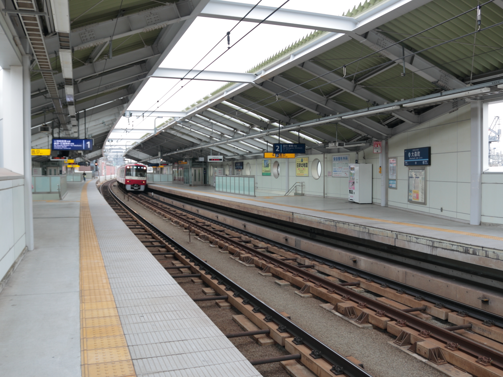 The platforms at Ōmorimachi Station on the Keikyu Main Line